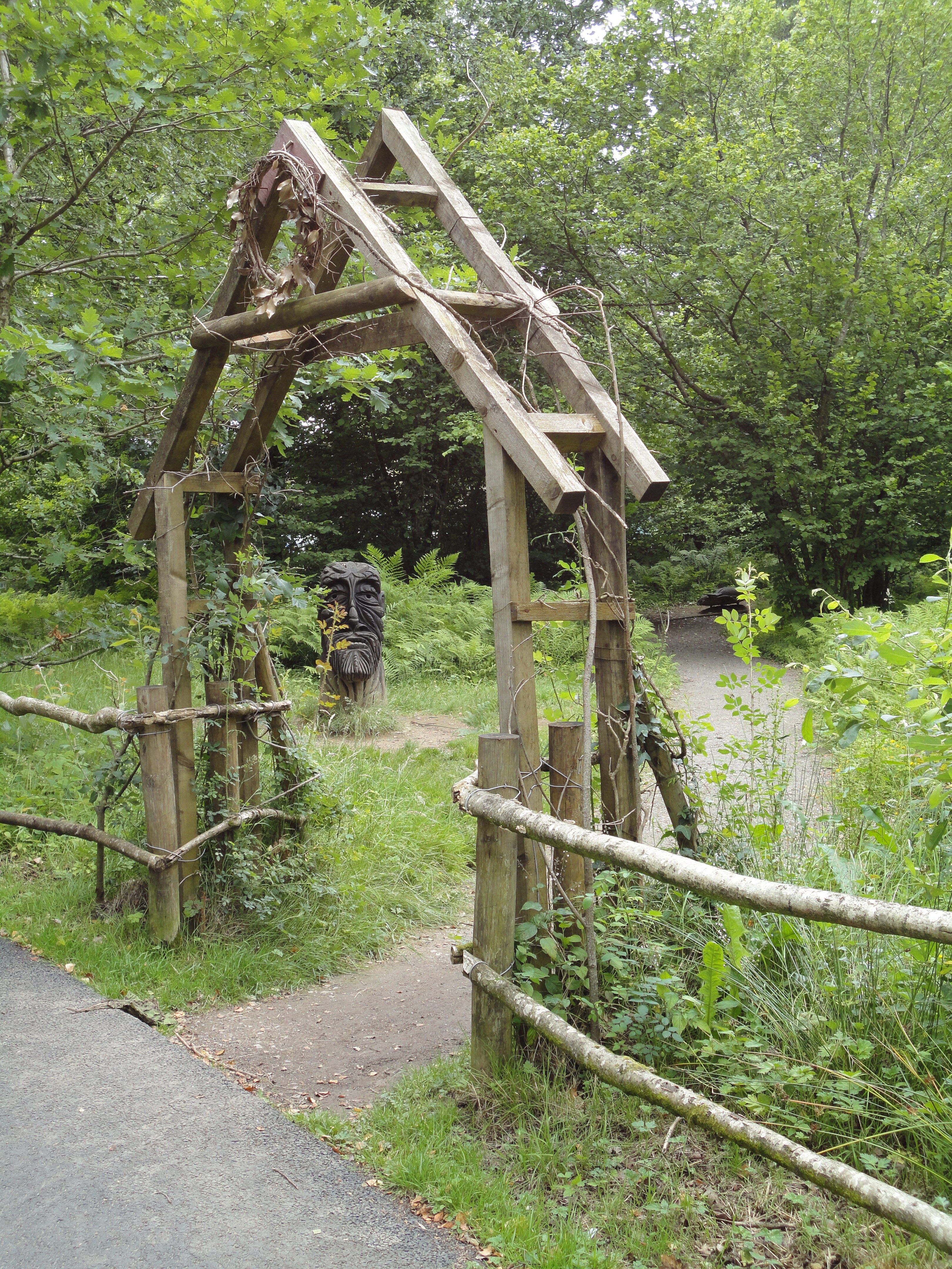 Bryngarw Country Park, Woodland Garden & Green Man